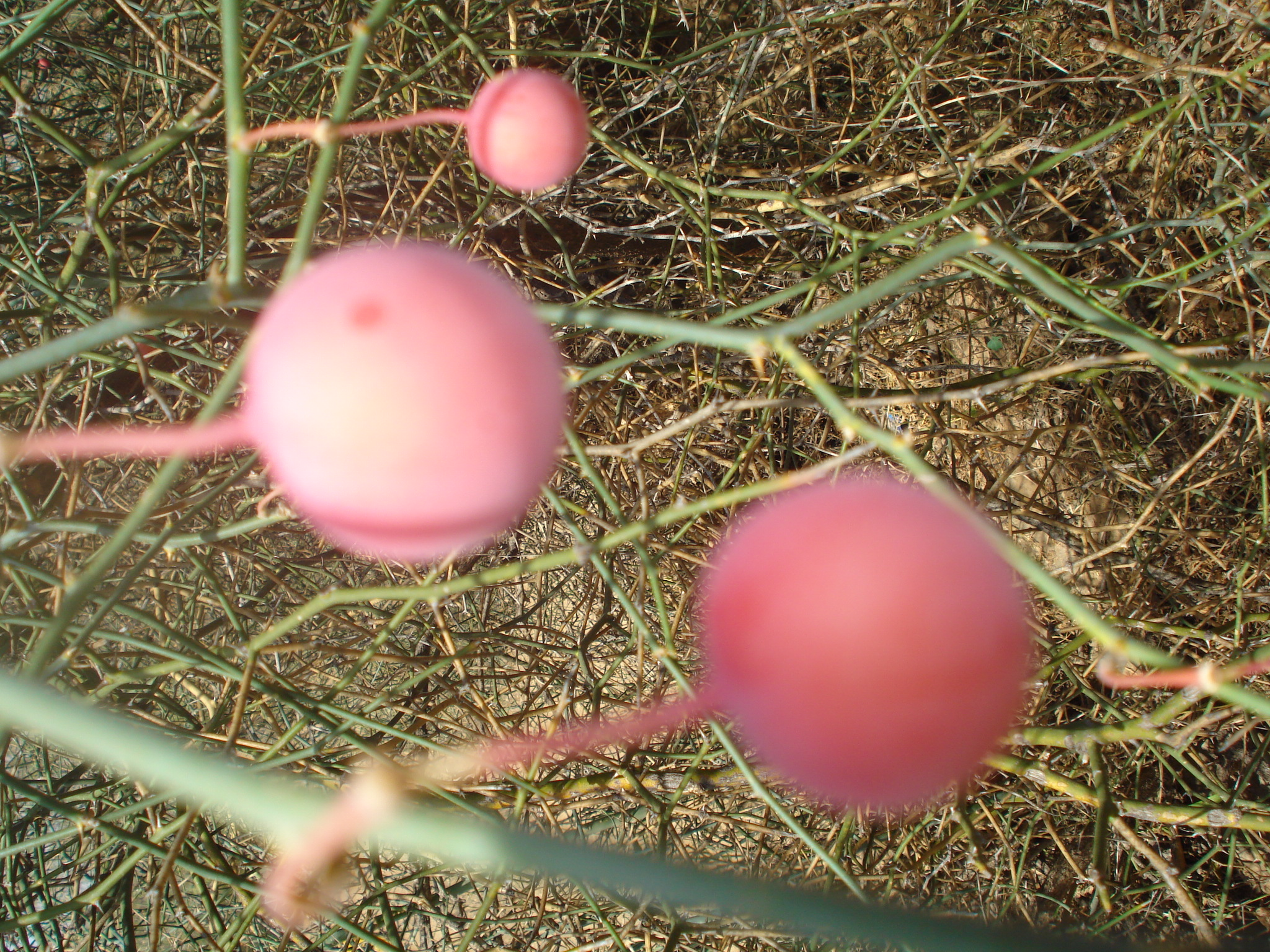 Capparis decidua ripe fruits